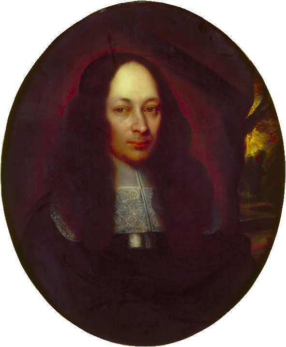 Peter Blundell (d.1601), merchant, of Tiverton in Devon, founder of "Tiverton Grammar School", 1604, now called Blundell's School. Provenance (as inscribed on an engraving of this poortrait c.1790): "Portrait given by Thomas Whitmore Esq. of Apley Park, Shropshire, To Robert Newton Incledon Esq. and by him to the Trustees of the School".